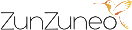 Logo of ZunZuneo.